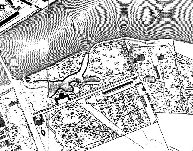 Map of the Lopukhinsky Garden in 1828.